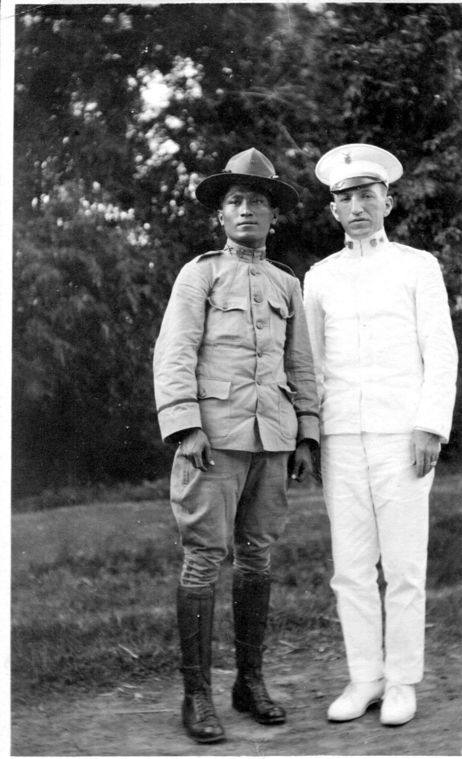 Joseph Stevenot with Lt. Miguel Aguinaldo